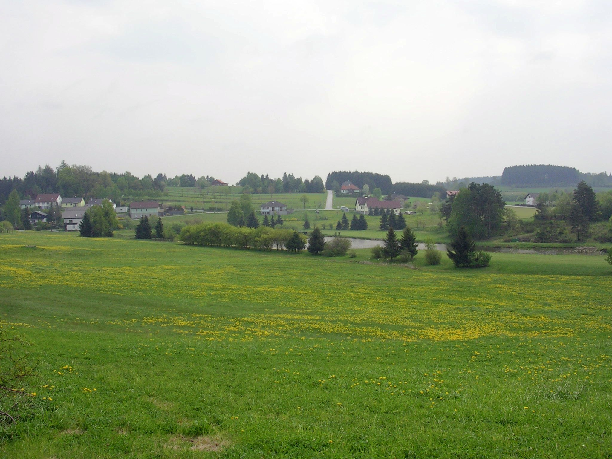 Haugschlag, Austria.